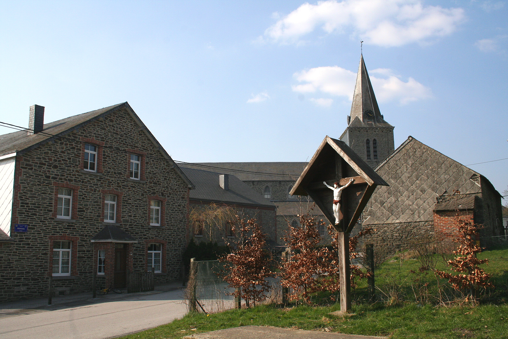 Bièvre (Belgium), the neighbourhood of the St. Hubert church (1894).